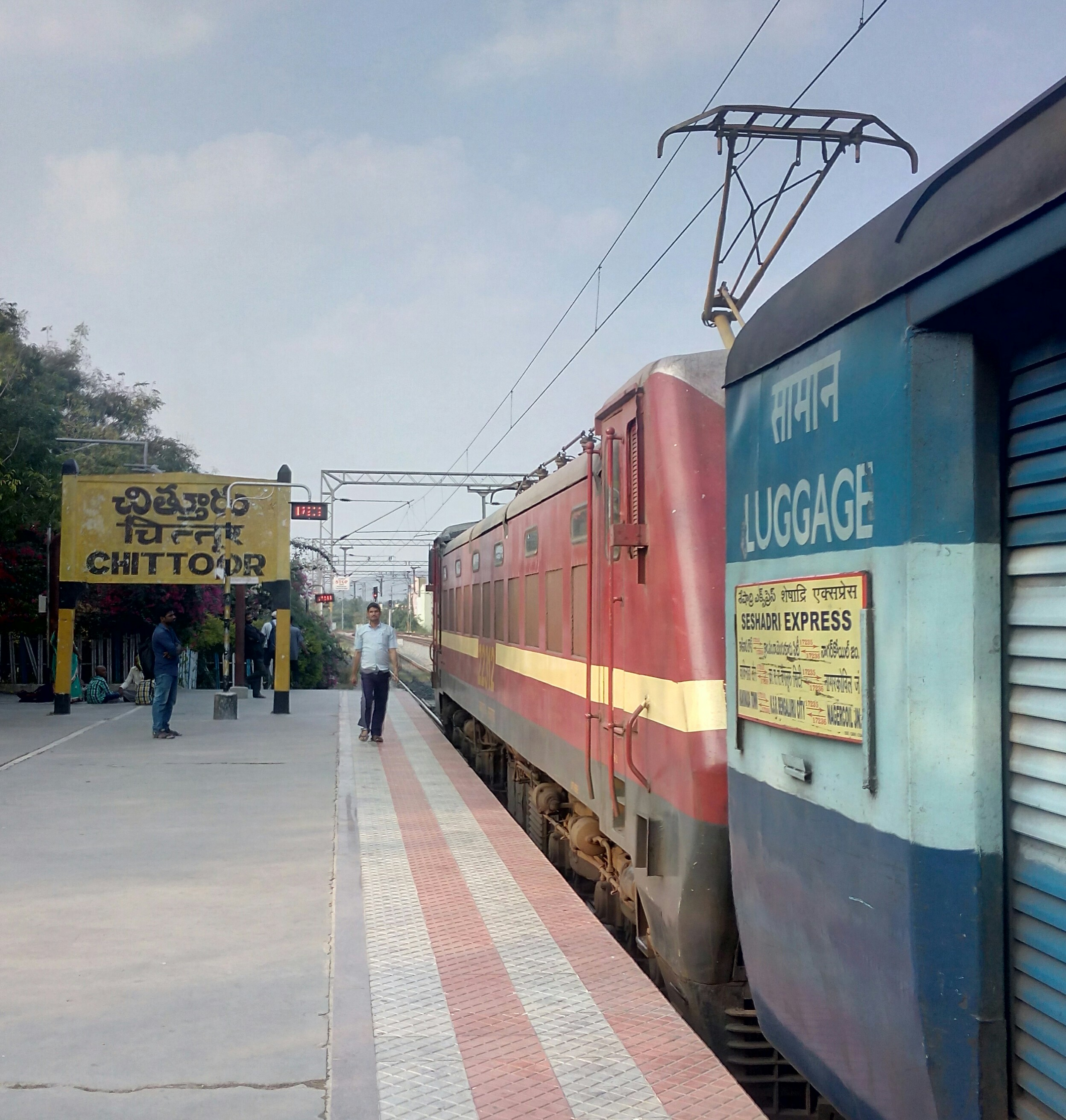 sesadri express near chittor